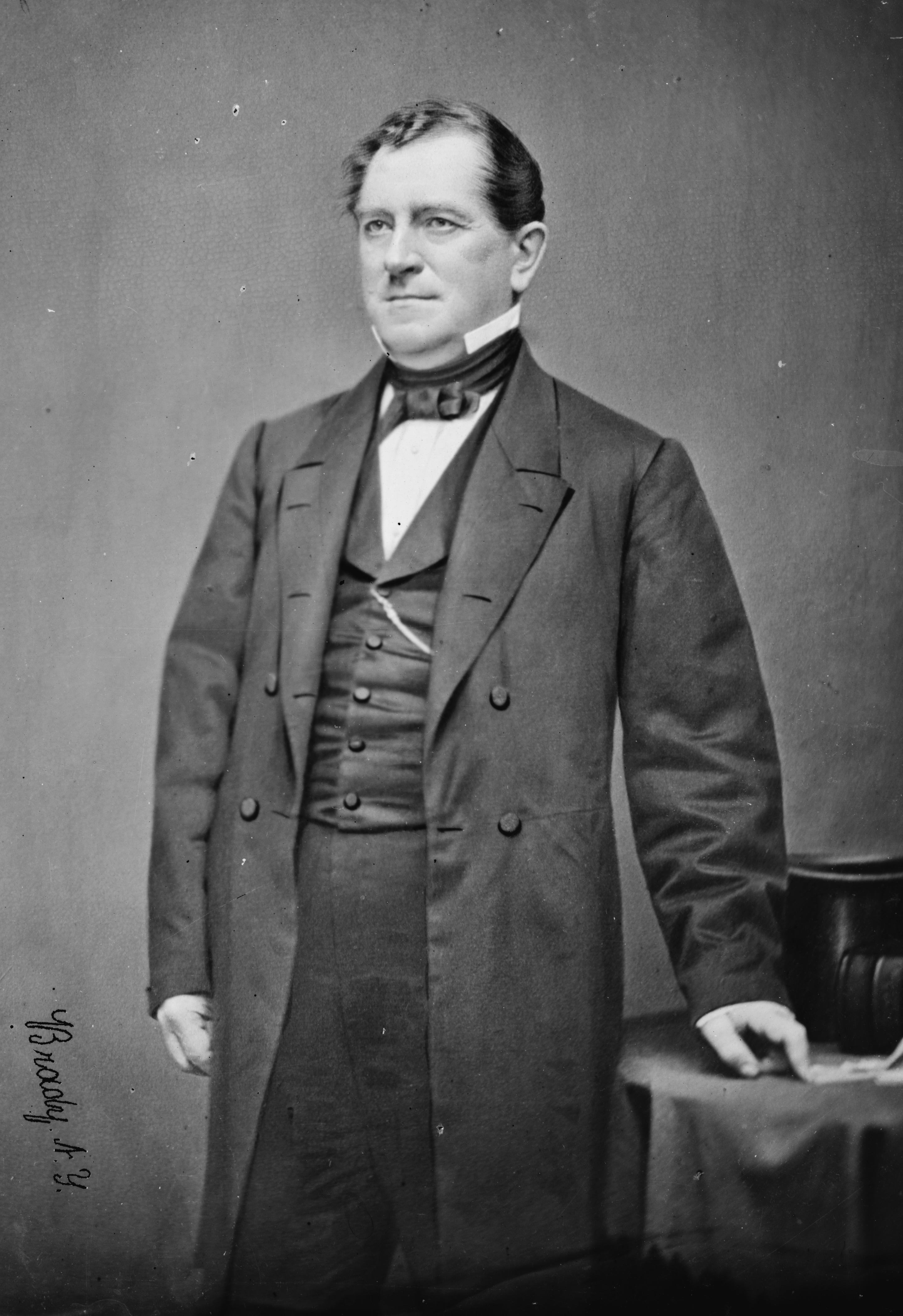 Joshua Reed Giddings. Library of Congress description: "Hon. Joshua Reed Giddings of Ohio"